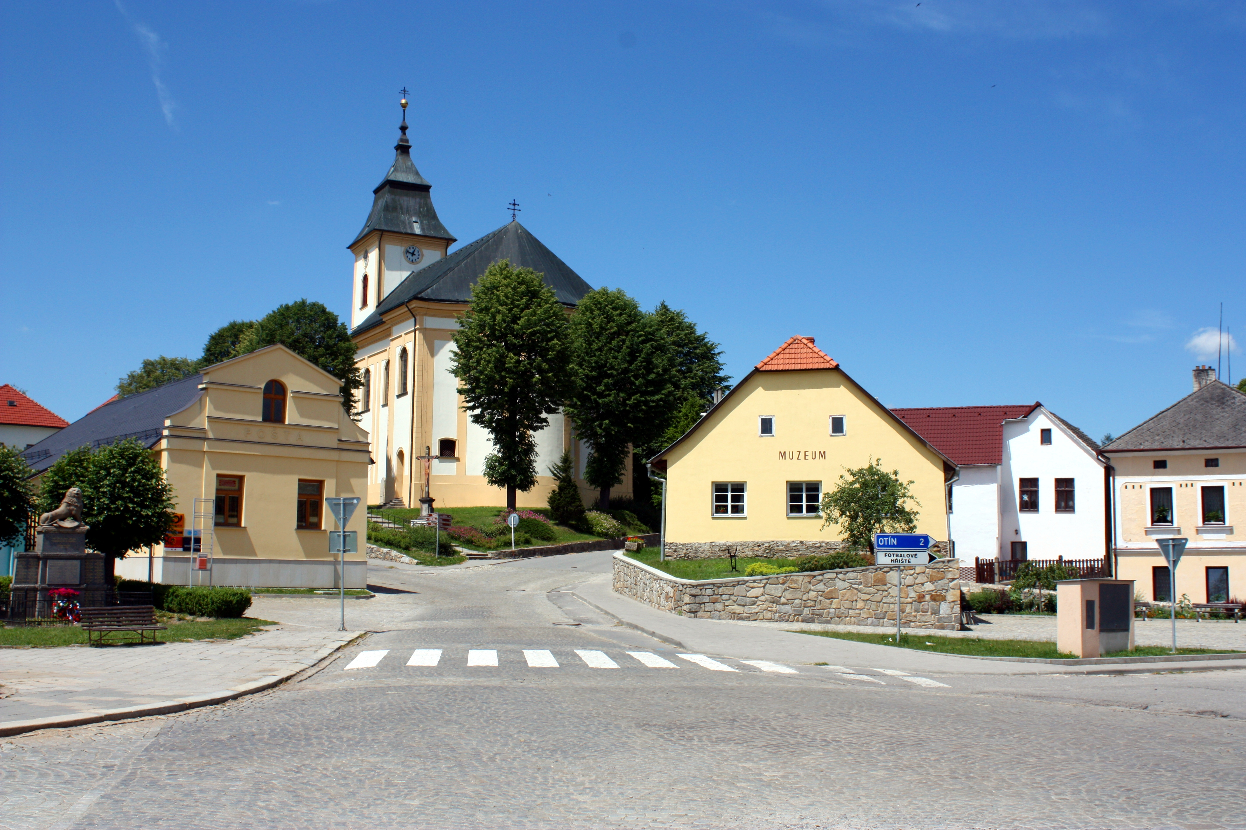 Picture of post office, churce and museum in Luka nad Jihlavou